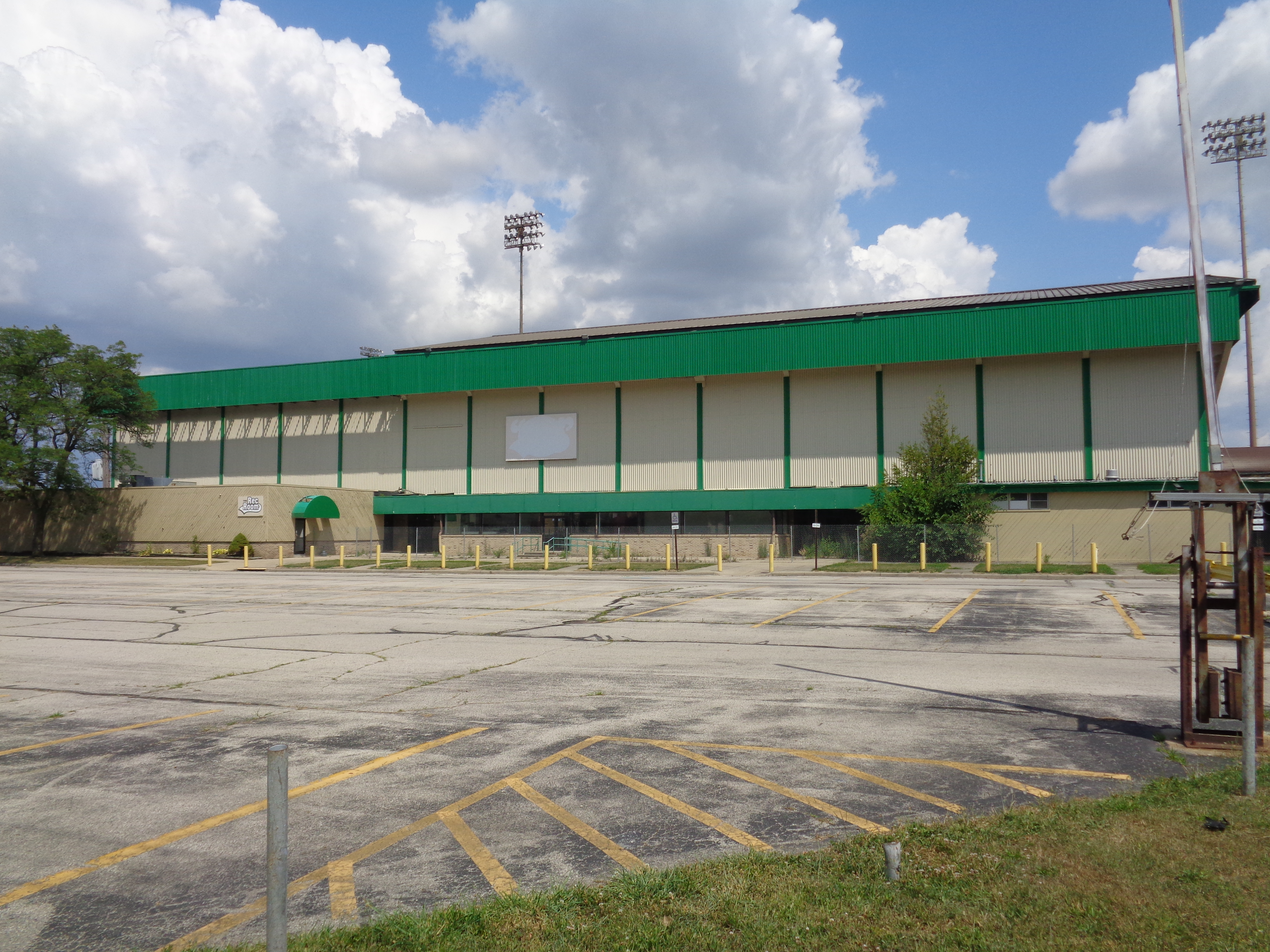 Photo showing the front of the Lucas County Recreation Center on Key Street.